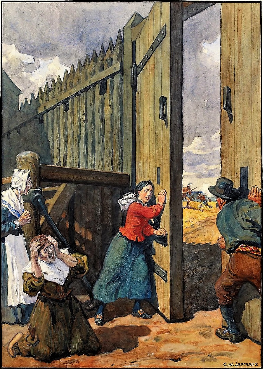 The Iroquois attack of Fort Vercheres, 1692. Madeleine closes the gate.